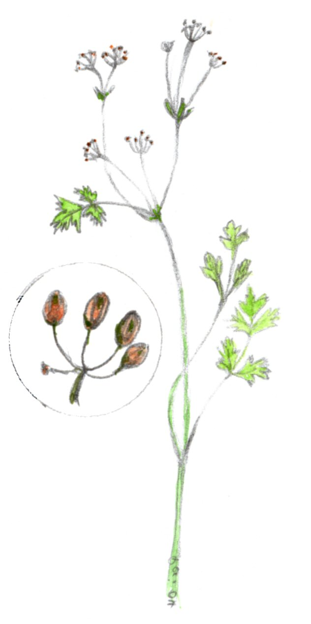 Watercolour of saltmarsh celery